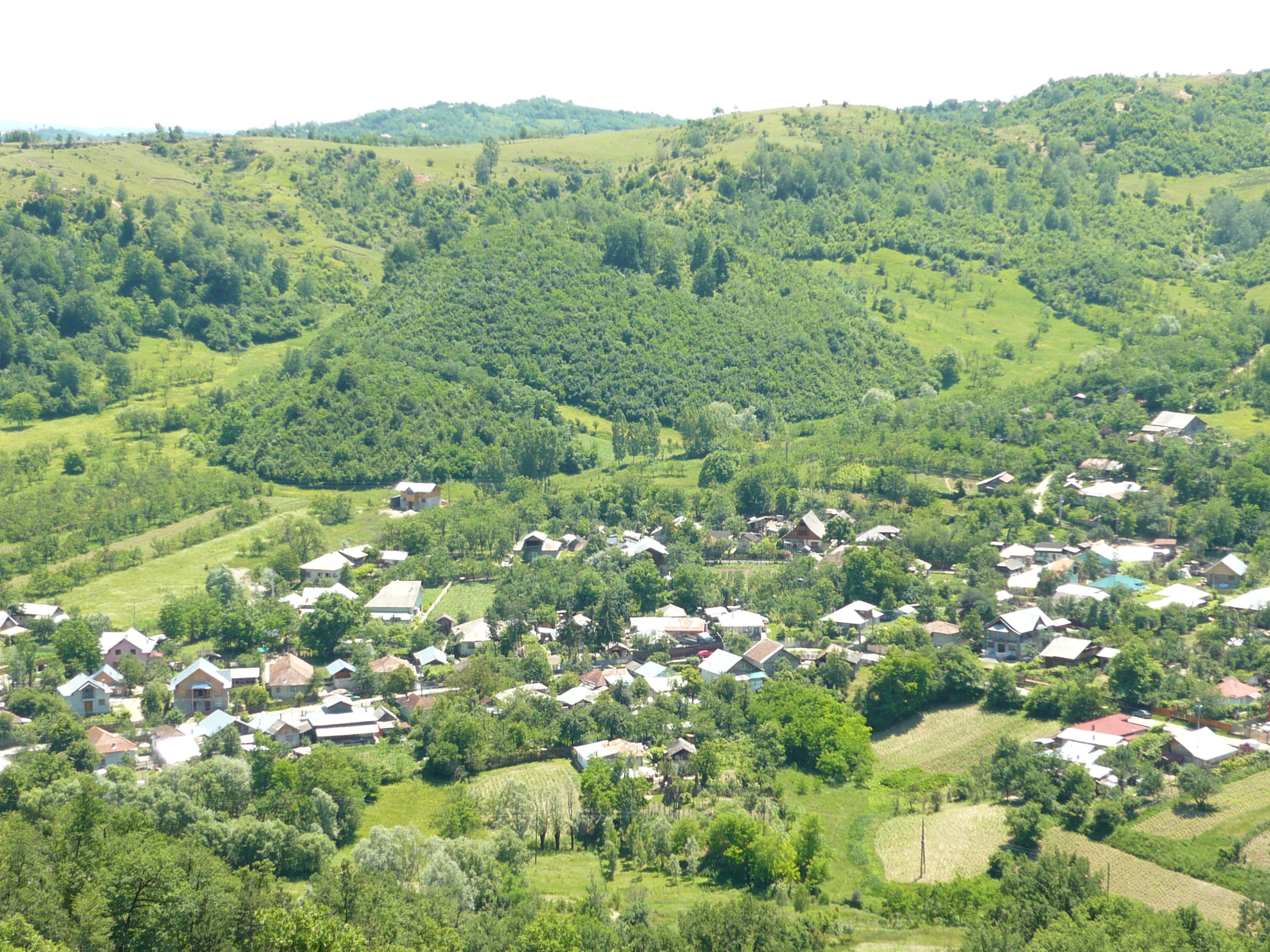 Panorama of Poiana Copăceni, Prahova County, Romania